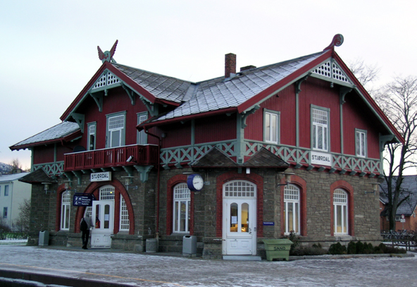 Stjørdal railway station, Nordlandsbanen. Architect: Paul Due.